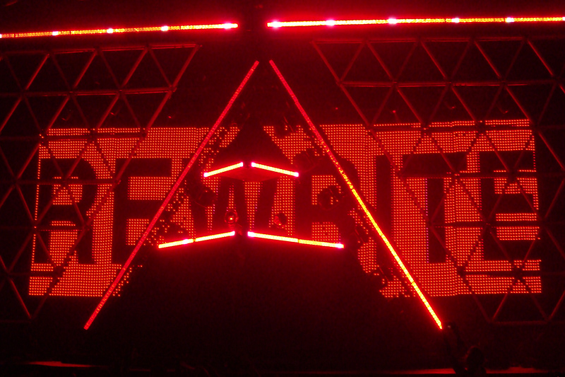 Daft Punk performing in 2007